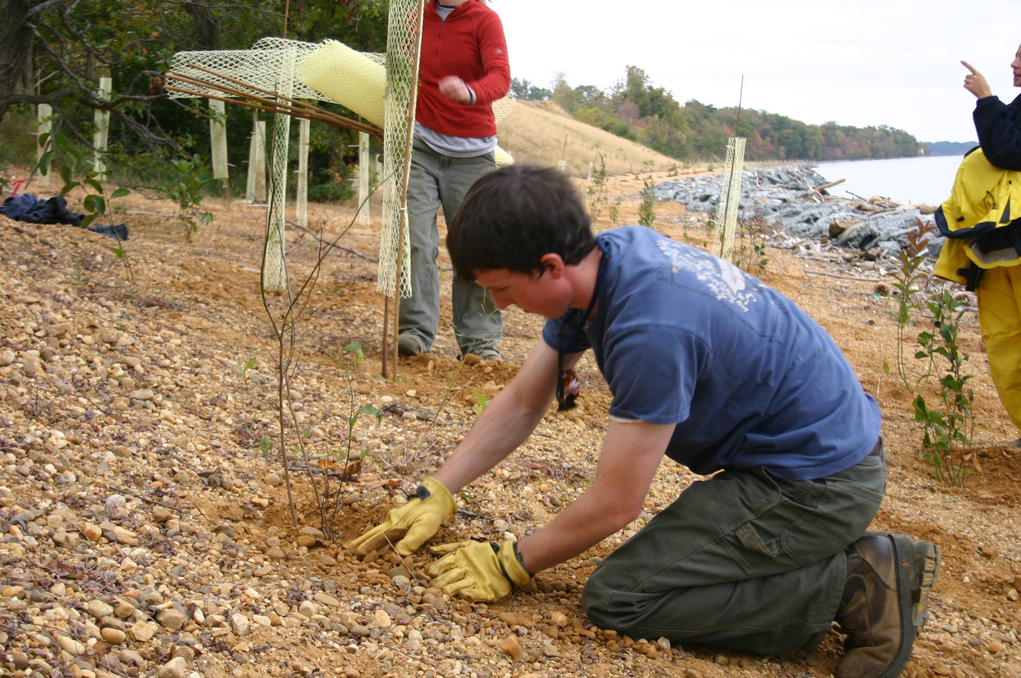 INDIAN HEAD, Md. (Oct. 24, 2008) Daniel Barth from Sioux Falls, S.D., plants one of 1,400 small trees and shrubs along a stretch of the Potomac River that the Navy is working to stabilize at Naval Support Facility Indian Head, Md. Barth, one of more than 70 volunteers who helped with the planting project, drove 22 hours to join the effort as a volunteer with the Maryland Conservation Corps. (U.S. Navy photo by Gary Wagner/Released)